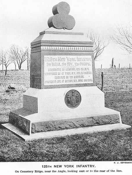 Front of Monument: 125th New York Infantry. 3d Brig. 3d Div. 2d Corps. Recruited in Rensselaer Co. N. Y. Mustered in at Troy, N. Y. Aug. 27, 1862. Engaged in 23 battles Mustered out at Albany, N. Y. June 5, 1865. Obverse of Monument: George Lamb Willard Colonel 125th New York Infantry, Major 19th United States Infantry, and Brevet-Colonel United States Army. Born August 15, 1827. Killed in action July 2, 1863, while in command of his brigade, at the place marked by a granite monument 70 yards to the left. July 2, 1863. Regiment in line at the stone wall until 7 p. m., when the brigade went to the support of the third corps. Charged and drove back Barksdale's Mississippi brigade. Returned at 8.30 p. m. July 3, 1863. Regiment in front on line of the stone wall, west side of Hancock Avenue at time of Longstreet's assault. Number engaged, 500; killed 26; wounded, 104 Missing 9; total 139. Regiment participated in all of the battles engaged in by the Army of the Potomac from that time up to and including Appomattox, VA., April 9, 1865.